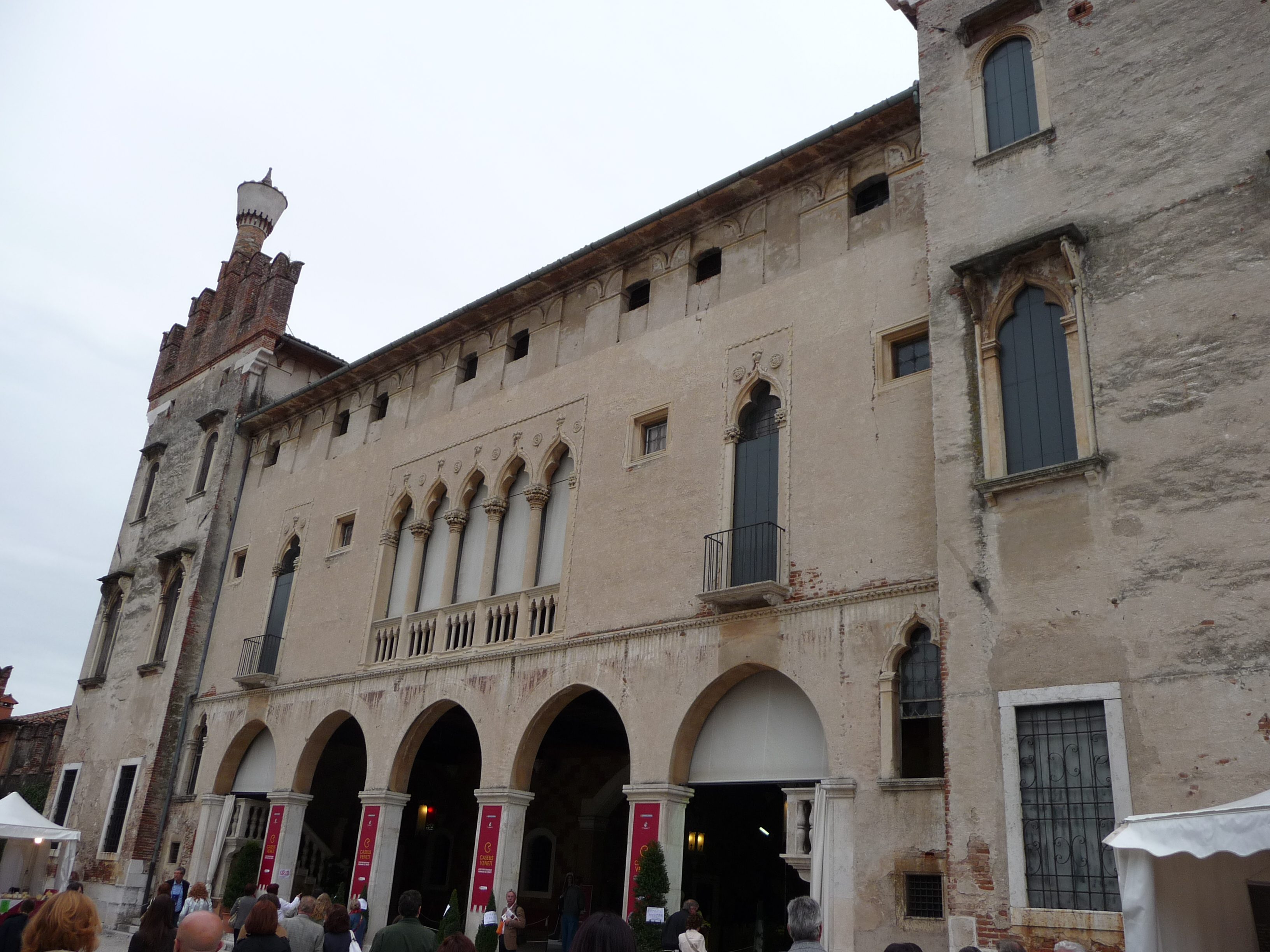 The Villa-Castle Porto Colleoni of Thiene in province of Vicenza.